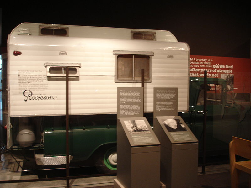 John Steinbecks Camper Truck. 2007 Own Work.